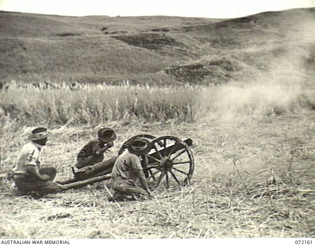 FORTIFICATION POINT, NEW GUINEA. 1944-04-06. A JAPANESE 75MM FIELD GUN, PACK TYPE, MEIJI 41 FIRED BY MEMBERS OF THE 2/14TH FIELD REGIMENT AT THE FRONTAL ARMOUR OF A DISABLED MATILDA TANK DURING TESTS ARRANGED BY THE OPERATIONAL RESEARCH SECTION, ARMY ORDNANCE CORPS AT HEADQUARTERS 5TH DIVISION. THE WEAPON WAS SERVICED BY MEMBERS OF THE 2/83RD LIGHT AID DETACHMENT. IDENTIFIED PERSONNEL ARE:- SX11511 SERGEANT A.B. WHITTING (1); SX9411 GUNNER W.J.M. HALL (2); VX52611 GUNNER D.B. OFFICER (3).